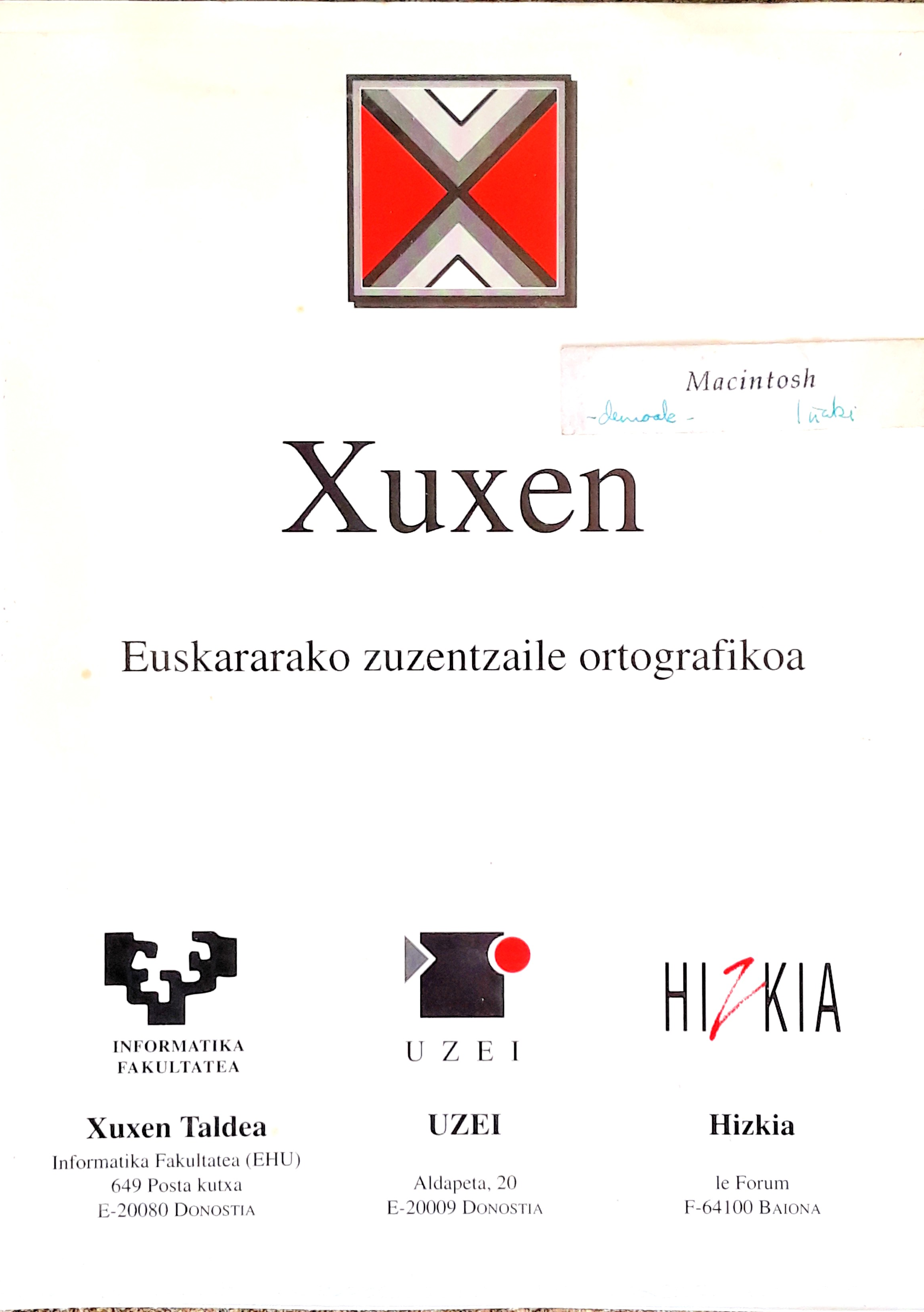 First edition of Xuxen, the spelling corrector for Basque. 1994. Portrait.